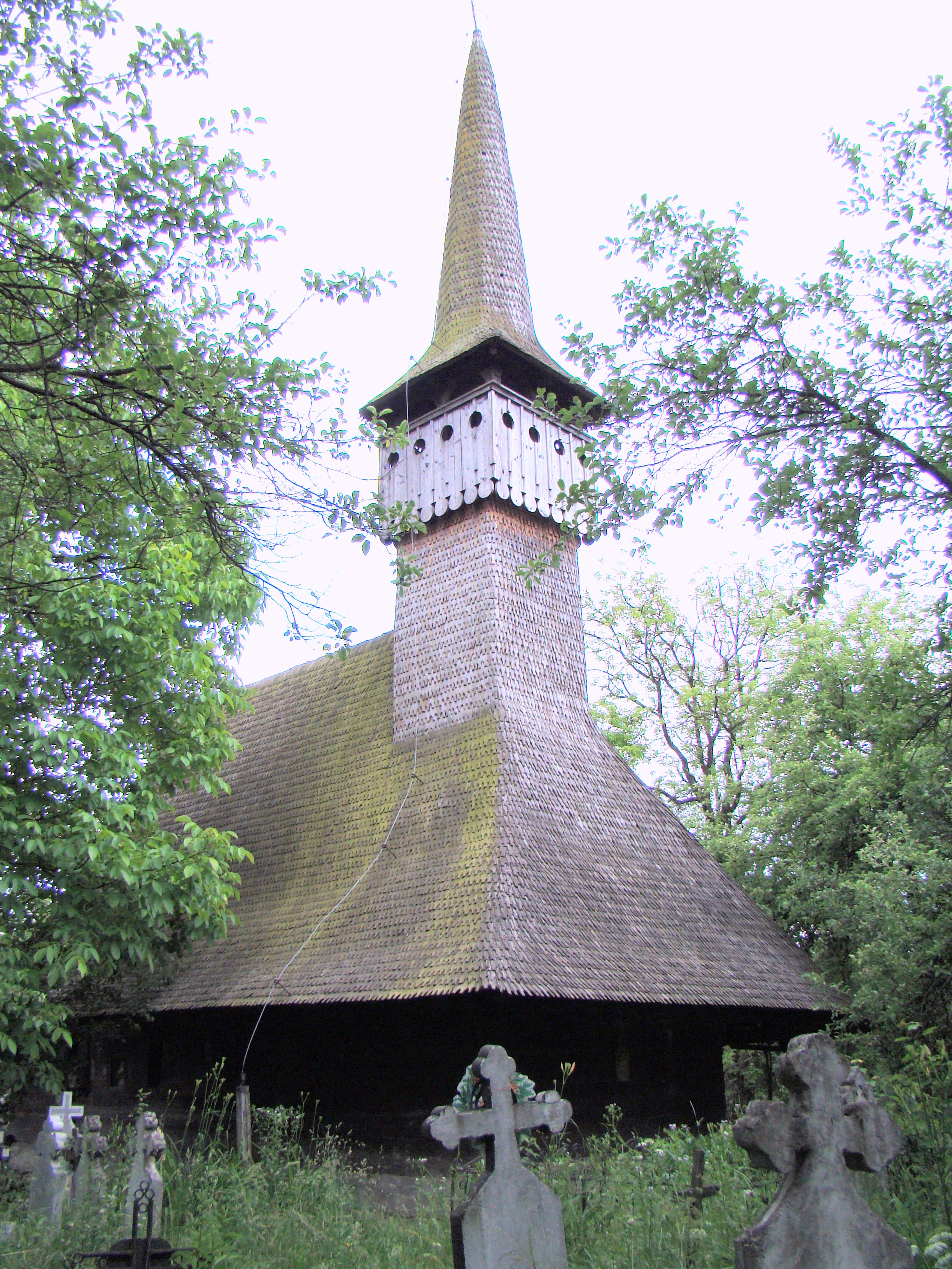 Wooden church in Lăpuş, MaramureşRomână: Biserica de lemn din Lăpuș